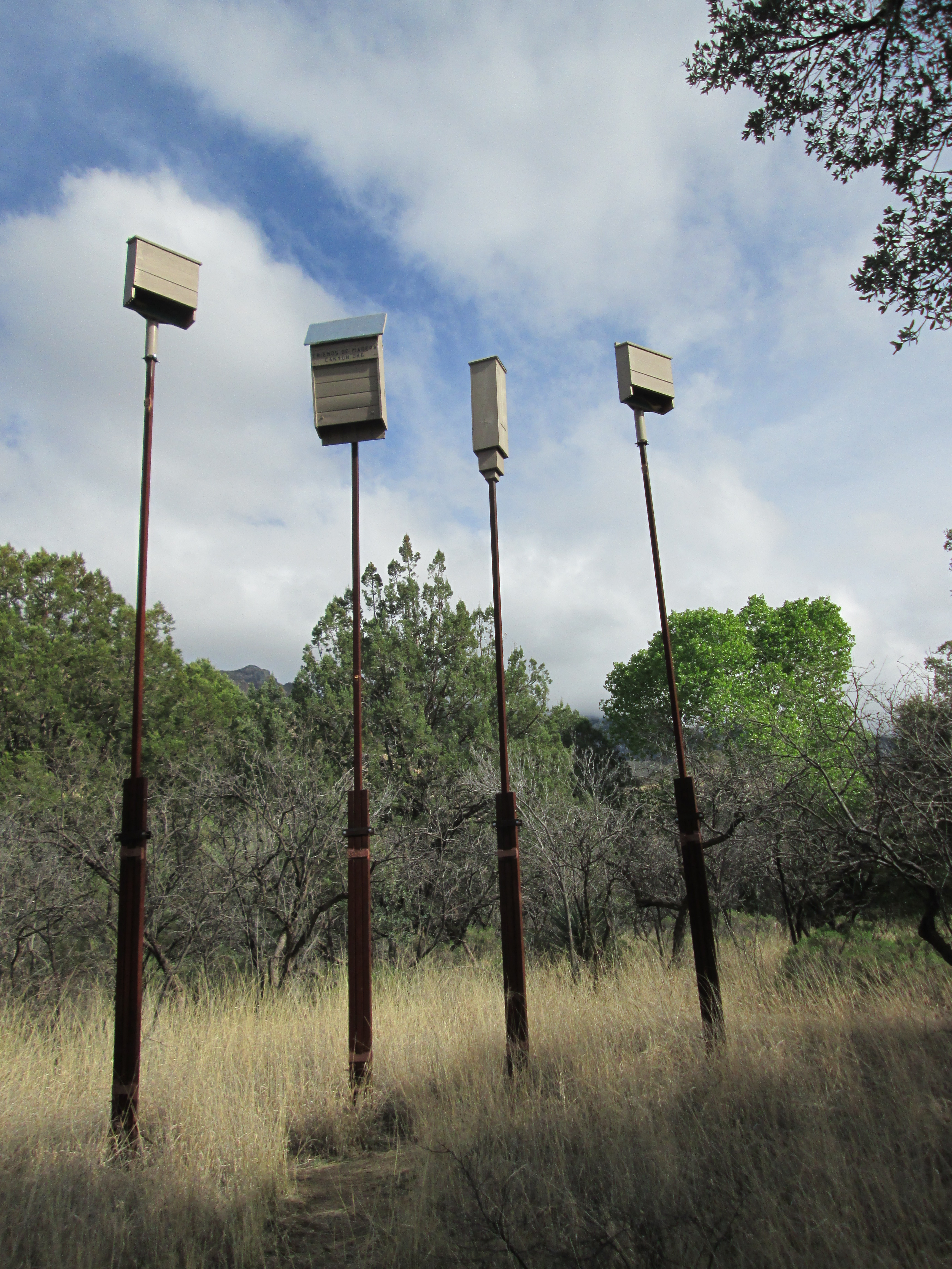 Artificial bat houses in Madera Canyon, Arizona. March 2, 2014